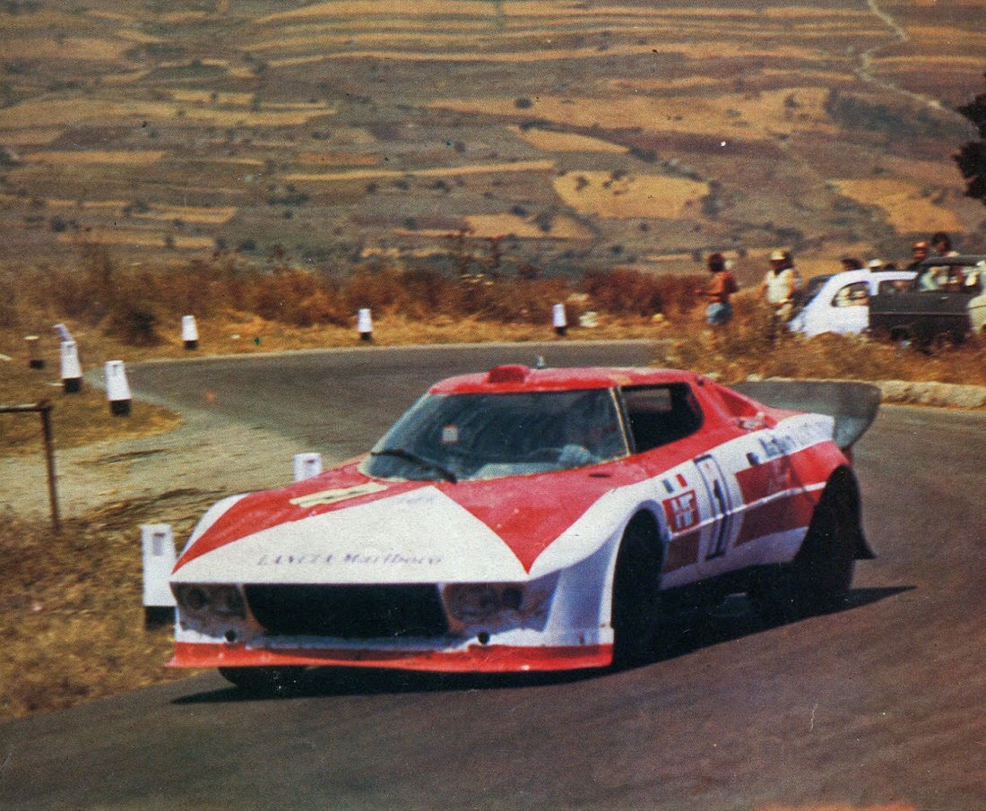 Province of Palermo (Sicily, Italy), "Piccolo Madonie" road circuit, June 9, 1974. Amilcare Ballestrieri and Gérard Larrousse's Lancia Stratos HF 2.4 V6 (Prototype) sponsored Marlboro, winner of the 1974 Targa Florio.